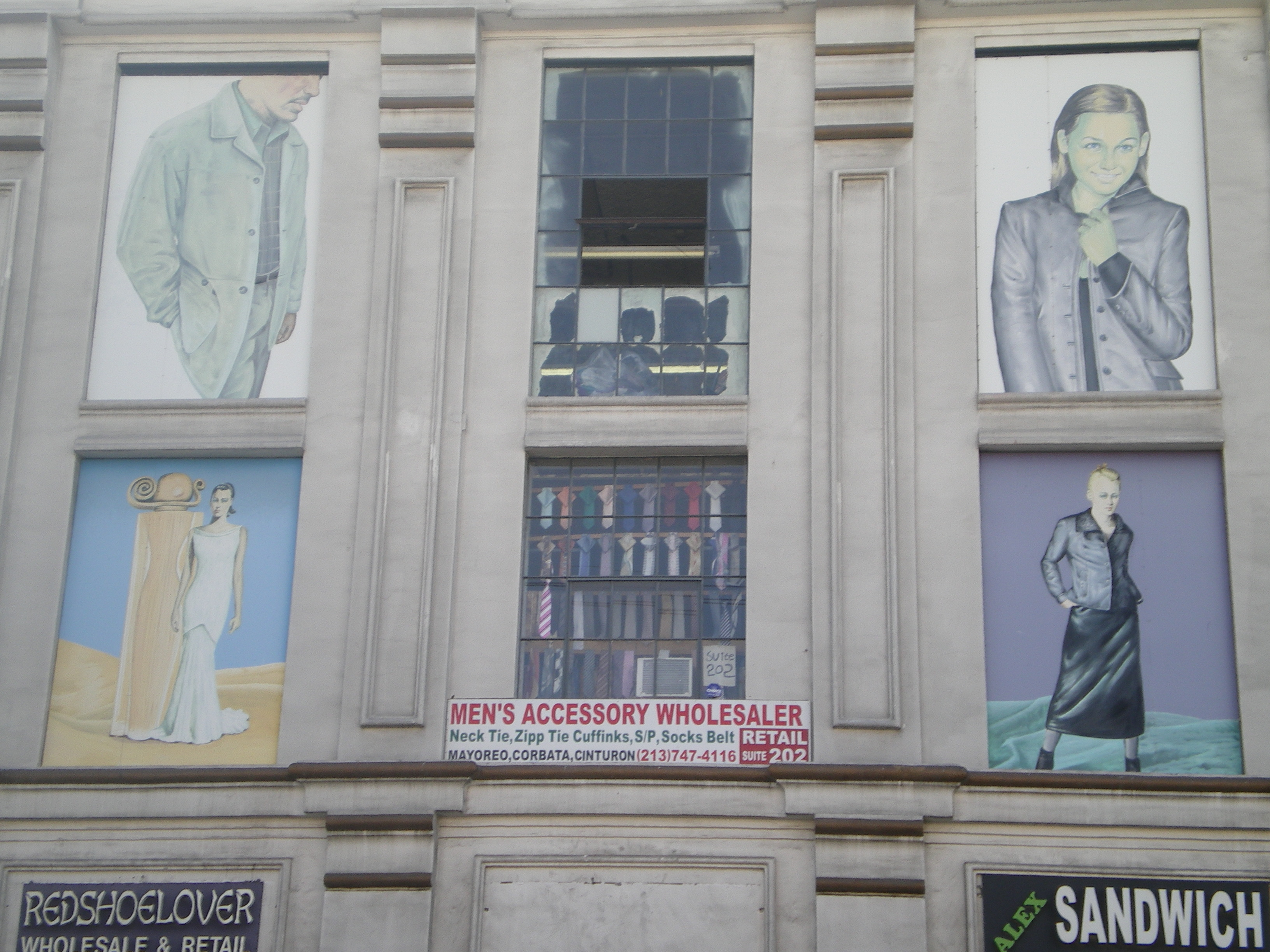 Men's Accessory Wholesaler, Fashion District, Pico & Santee, Los Angeles, CA Fashion District, Pico & Santee, Los Angeles, CA